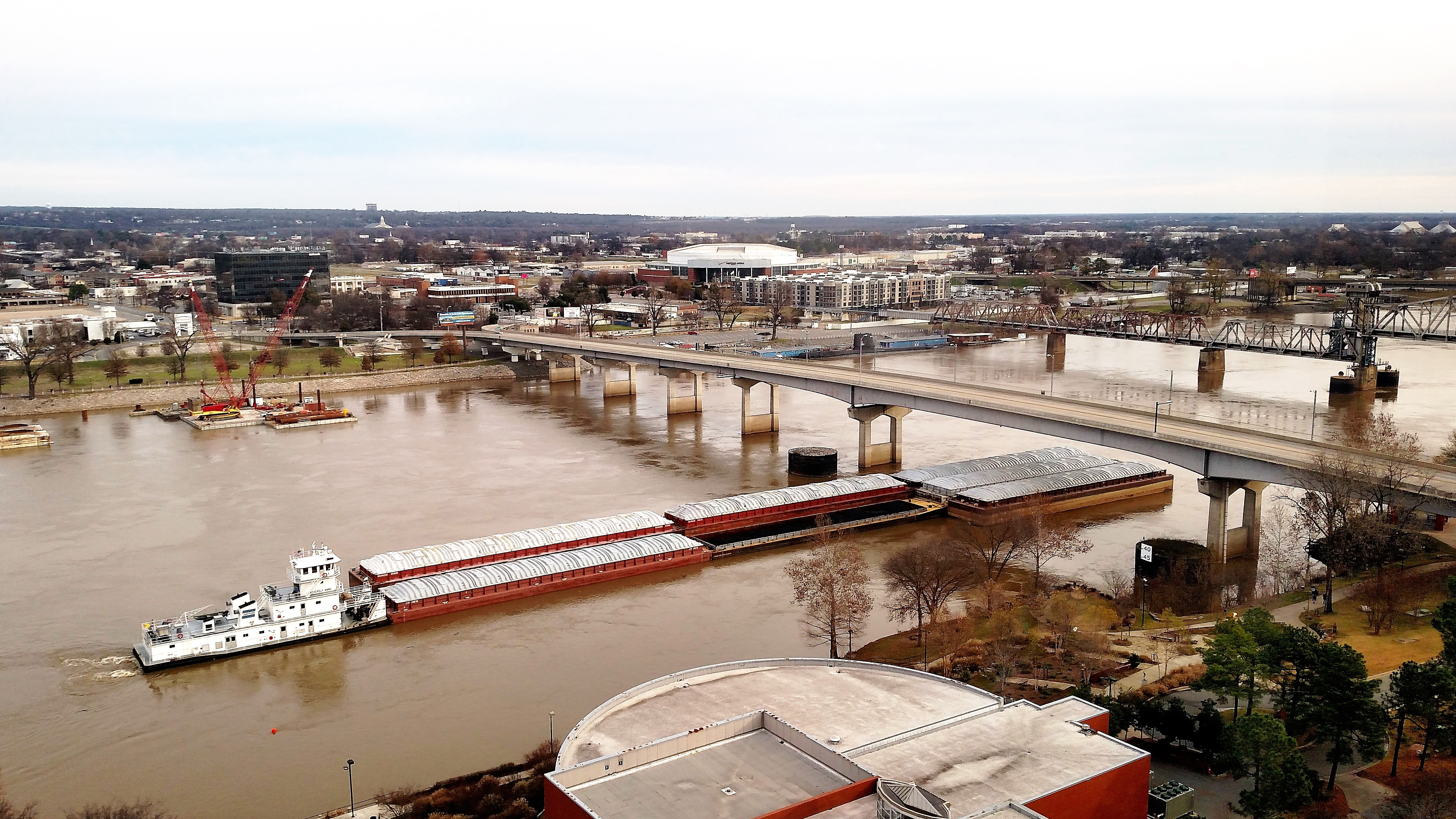 Barge floats downstream underneath the 9th Street Bridge in Little Rock. Looking north toward North Little Rock, with Verizon Arena in the background.